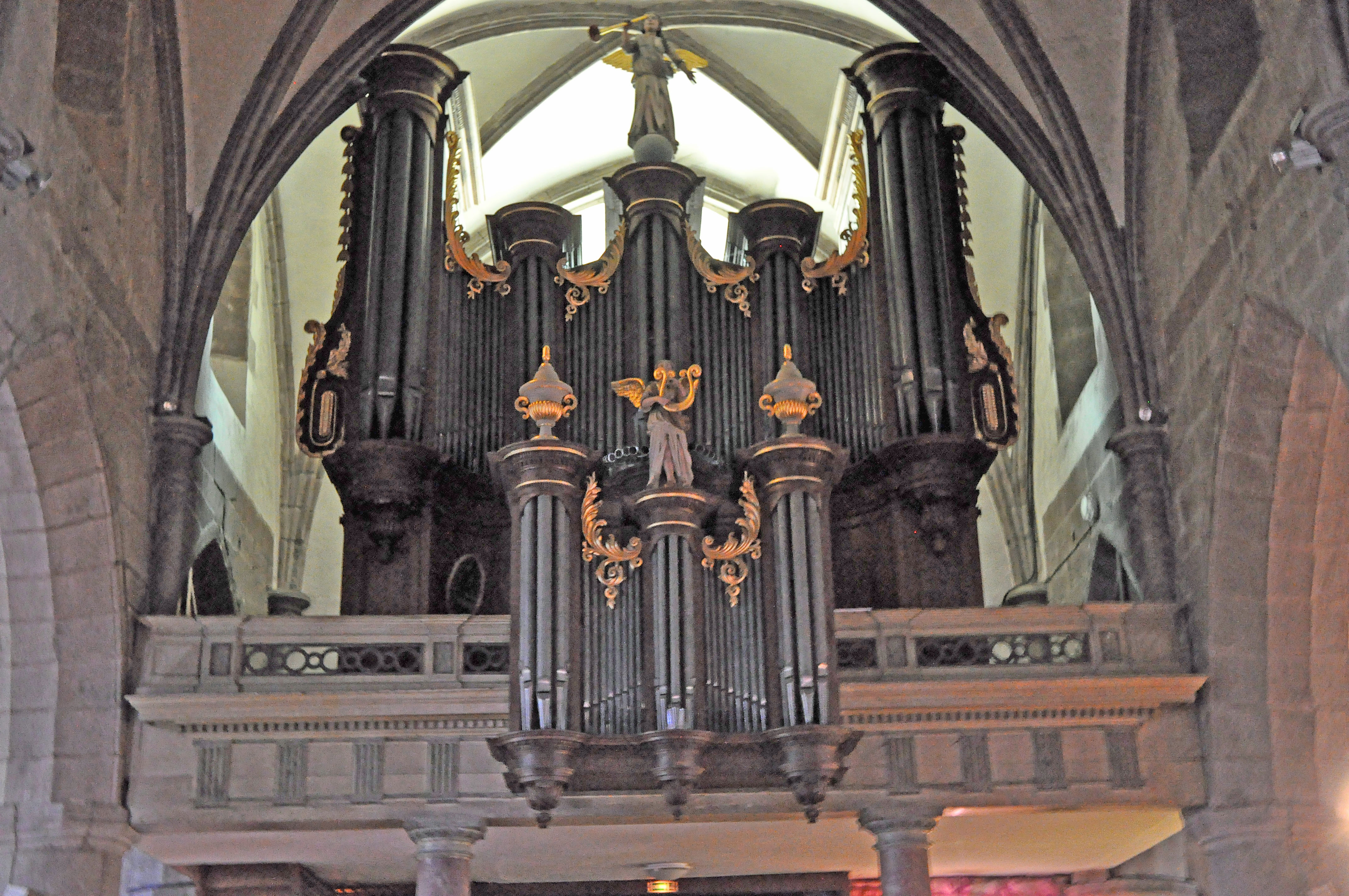 Villedieu-les-Poêles (France, Normandy), pipe organ of Our Lady church